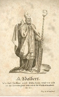 Image of Adalbert of Magdeburg, (died 981) the first Archbishop of Magdeburg (from 968) and a successful missionary to the Slavic peoples to the east of Germany.